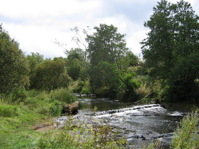 River Luggie at Waterside, near Kirkintilloch. Waterside is a small village, formerly a centre of weaving, on the outskirts of Kirkintilloch